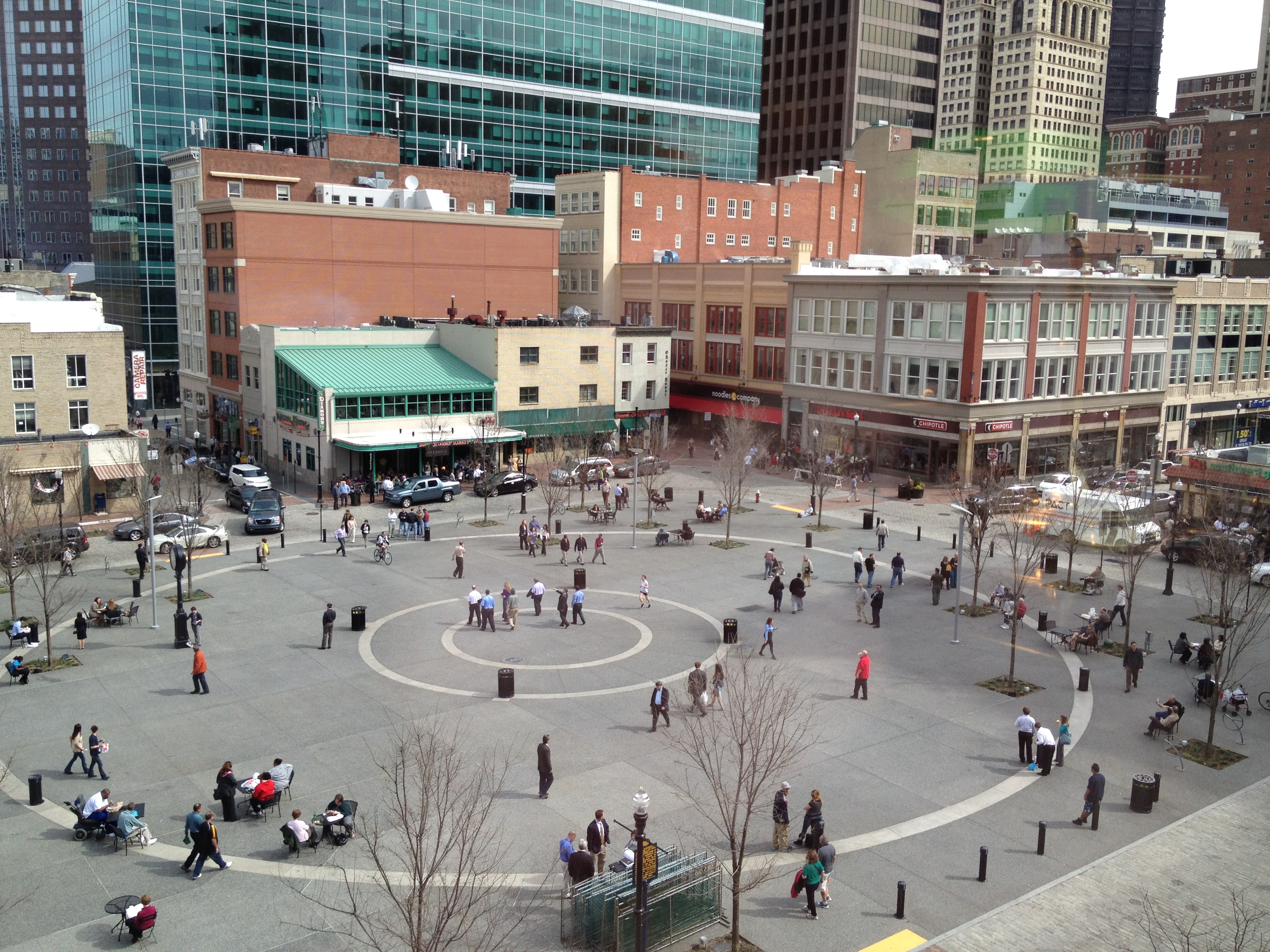 An afternoon in March in Pittsburgh's Market Square.